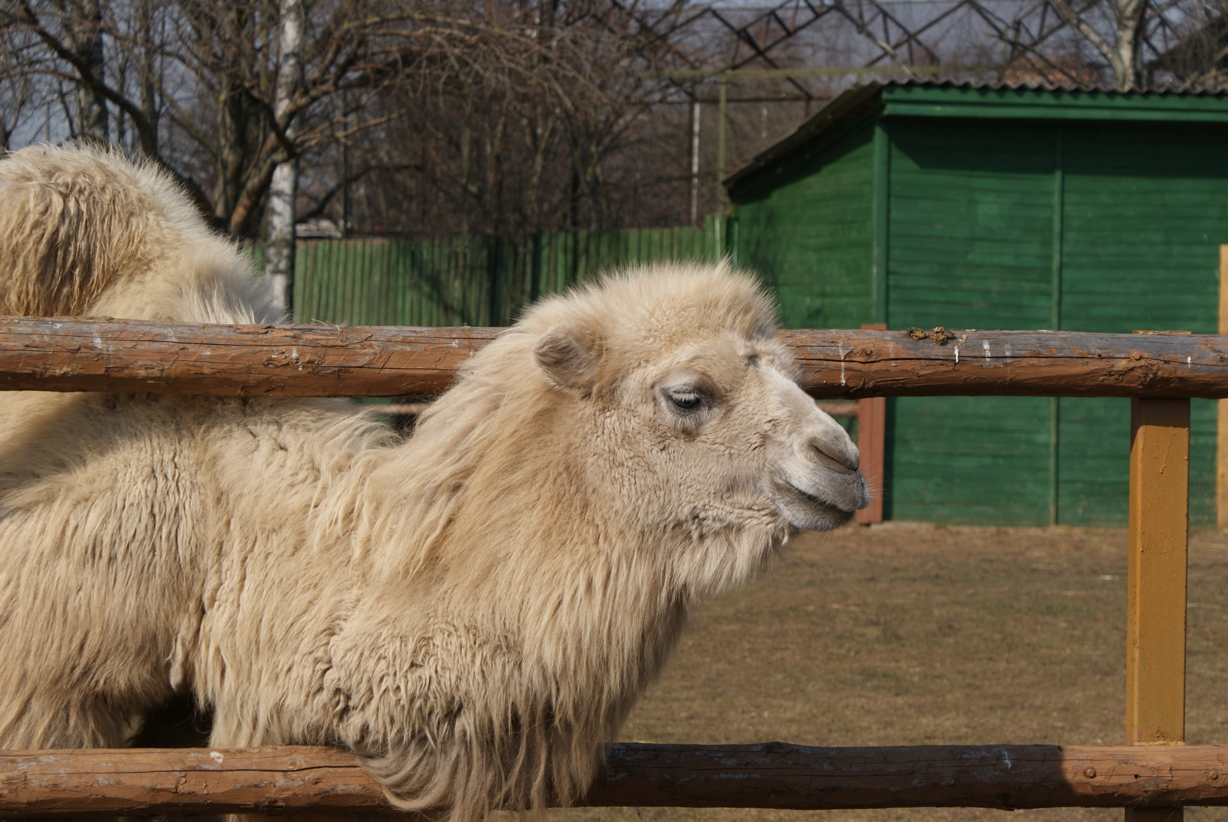 Camelus bactrianus in Minsk Zoo